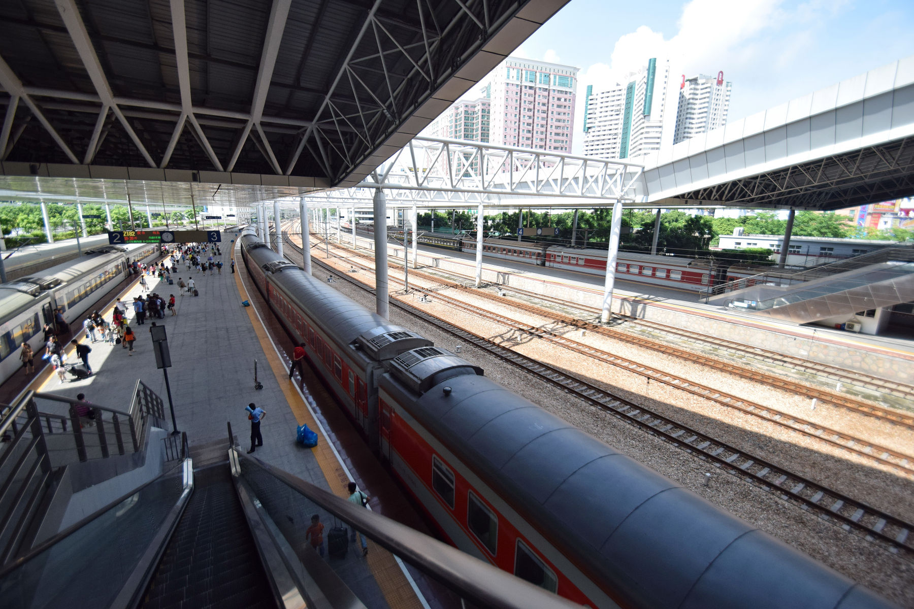 Platforms of Shenzhen Dong (East) Railway Station